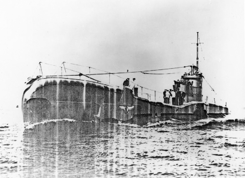 British T class submarine HMSM TRIAD underway.